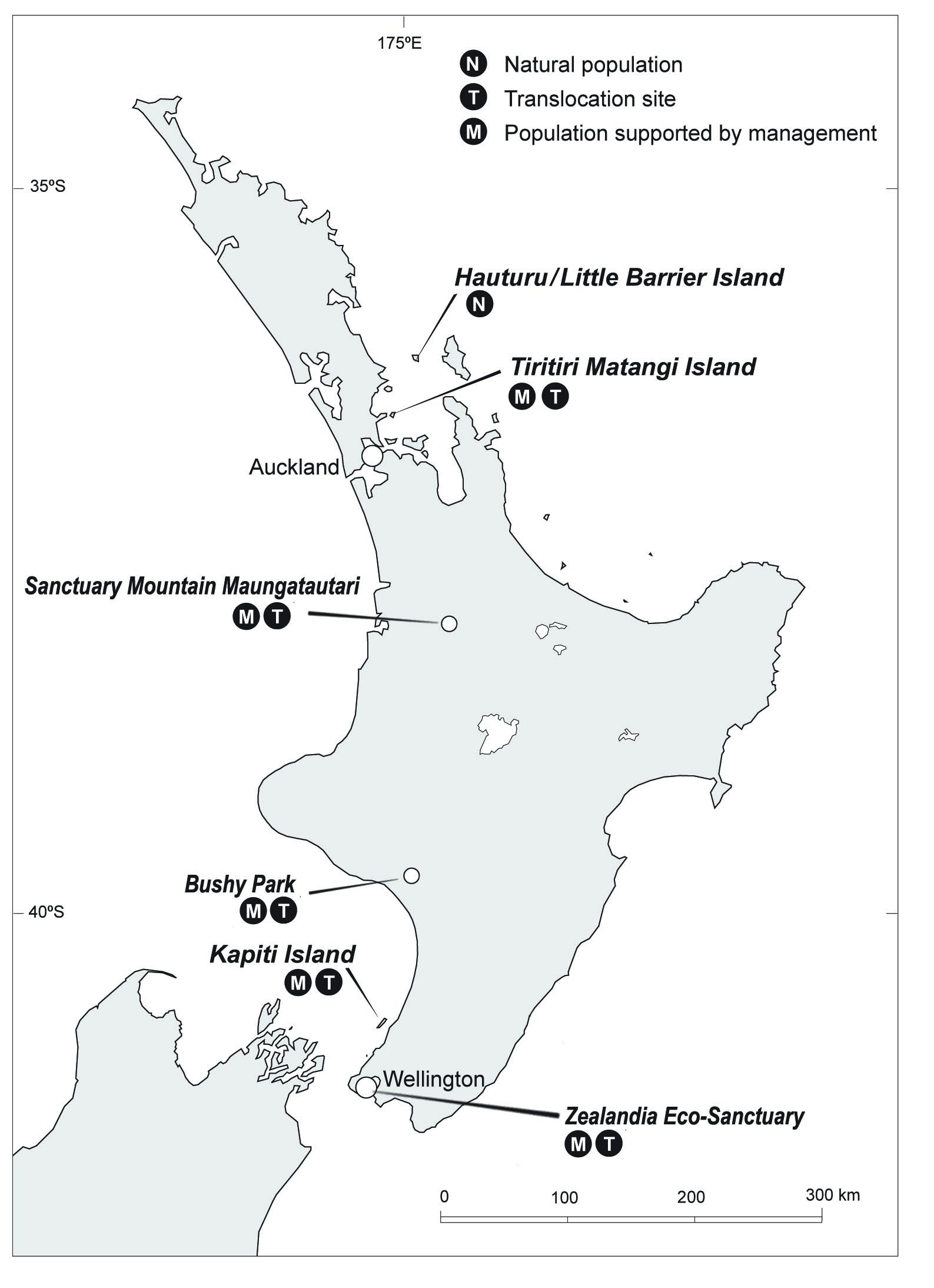 Hihi distribution and management